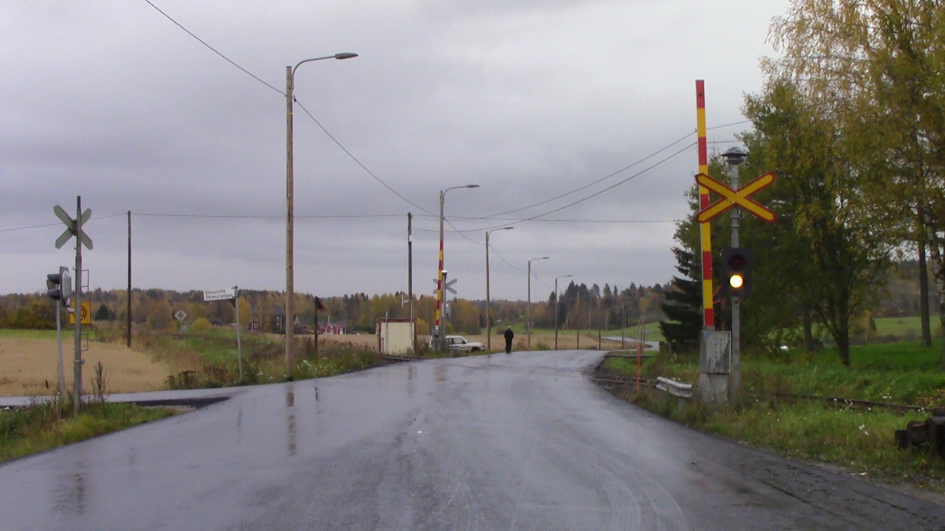 Finnish connecting road 1531 at Kinnari level crossing in Porvoo. The road has a high traffic volume when compared with quality of the road.